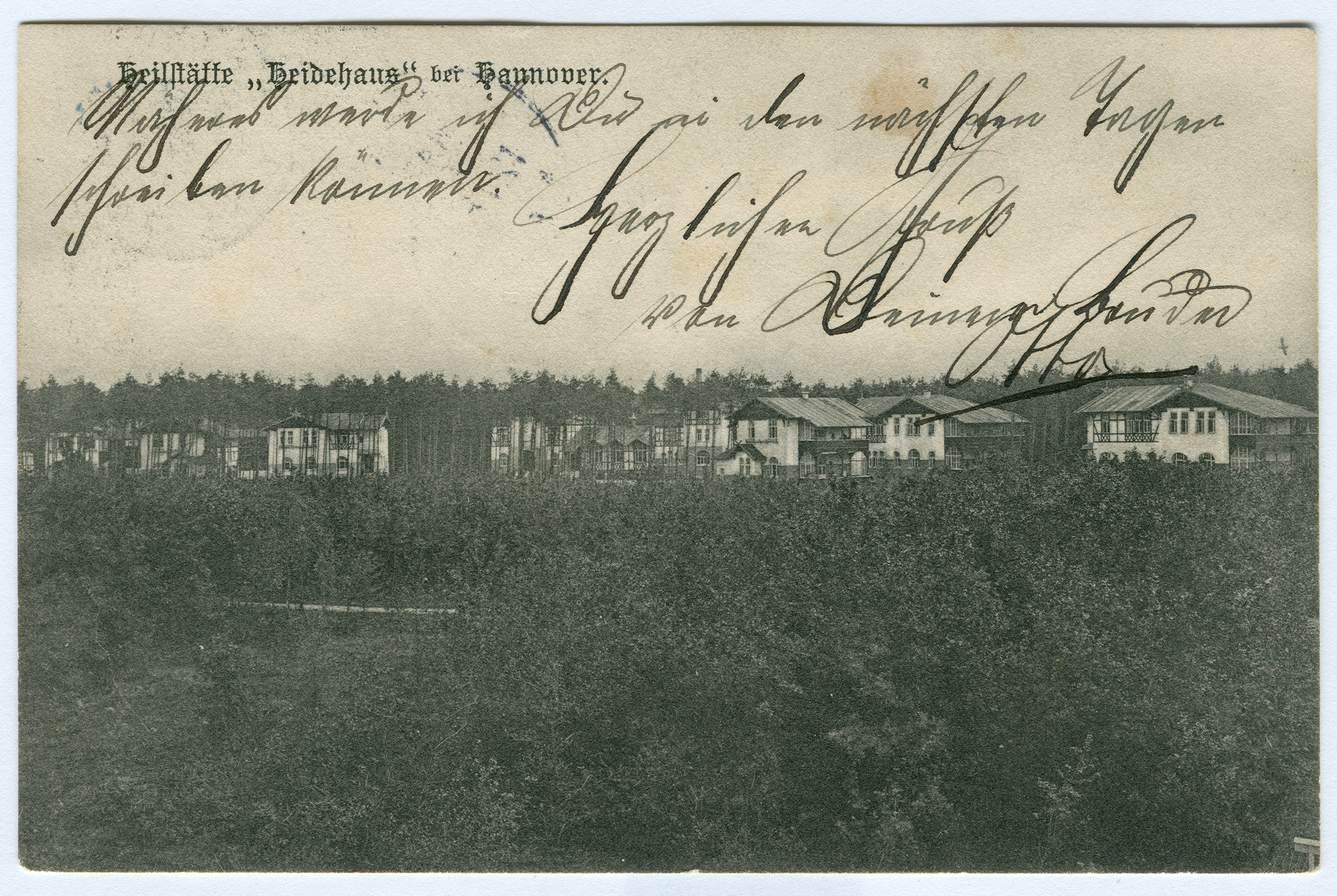 Postcard